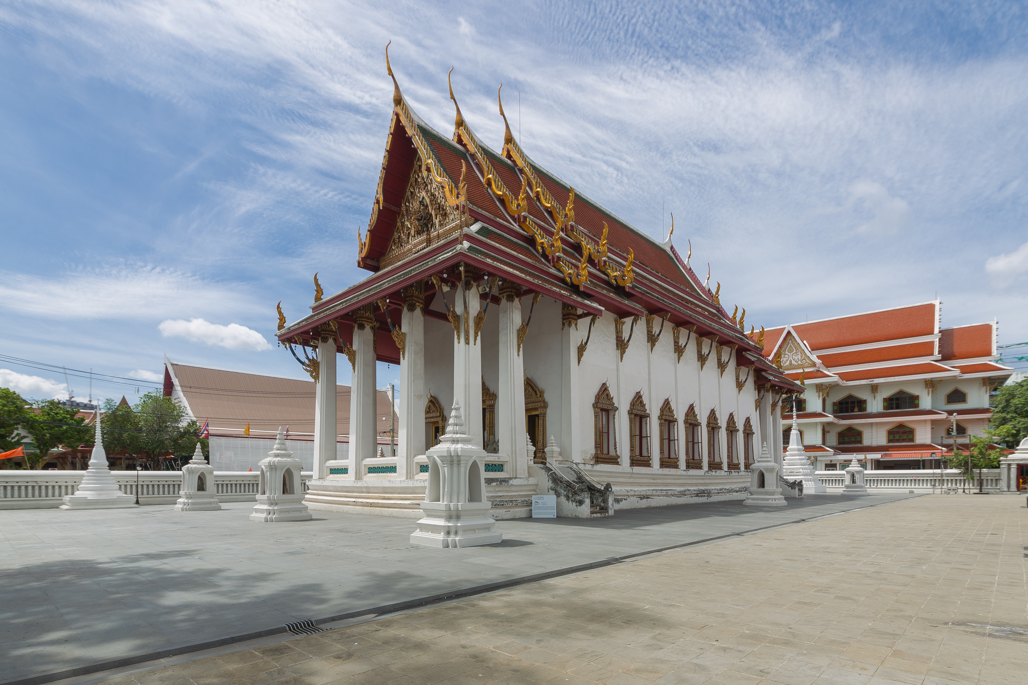 Wat Suwannaram, Bangkok, Thailand.